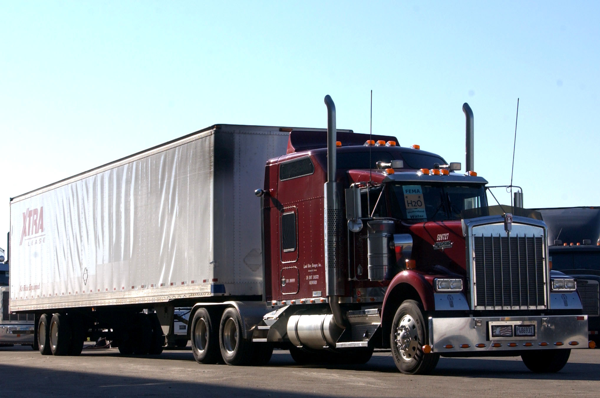 Homestead Air Reserve Base: Trucks began arriving here to pre-position water, military rations, ice and tarps for the post-hurricane relief effort. The trucks, which began arriving Oct. 20, have delivered supplies from Key West to northern Miami-Dade County since the storm passed.